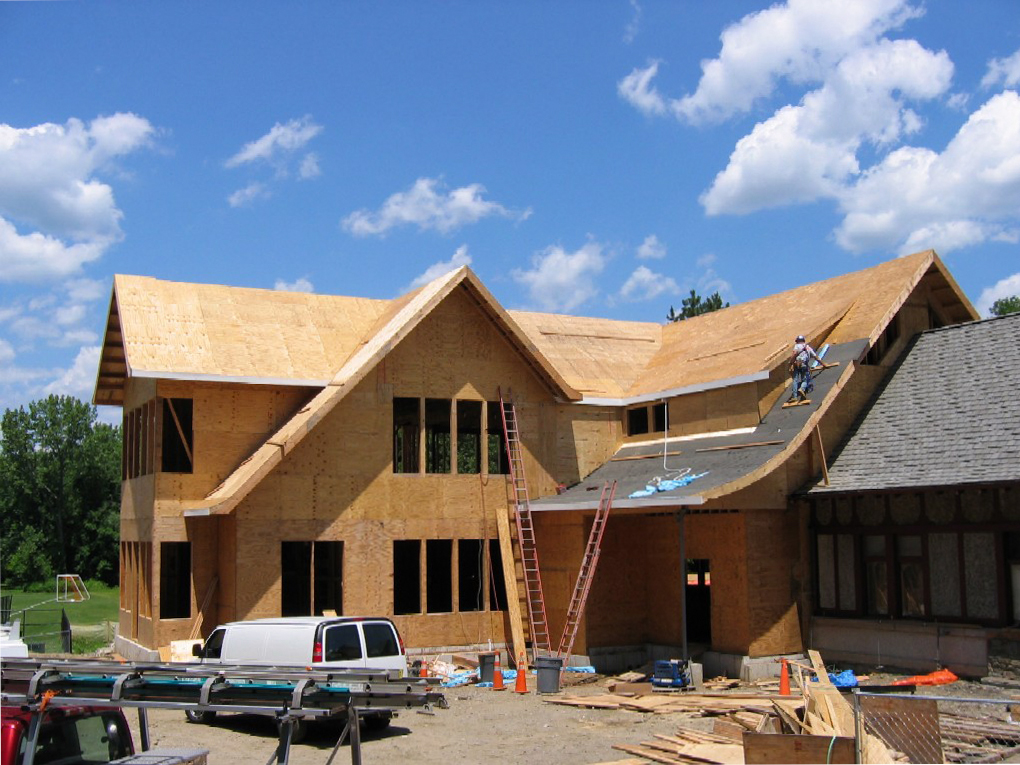 Expanding the Briarcliff Manor Public Library. Construction officially began in 2007, and spanned 2008 and 2009. These files were bequeathed to the BMSHS by the library director and uploaded here as part of my volunteer position as Wikipedian in Residence at the BMSHS.